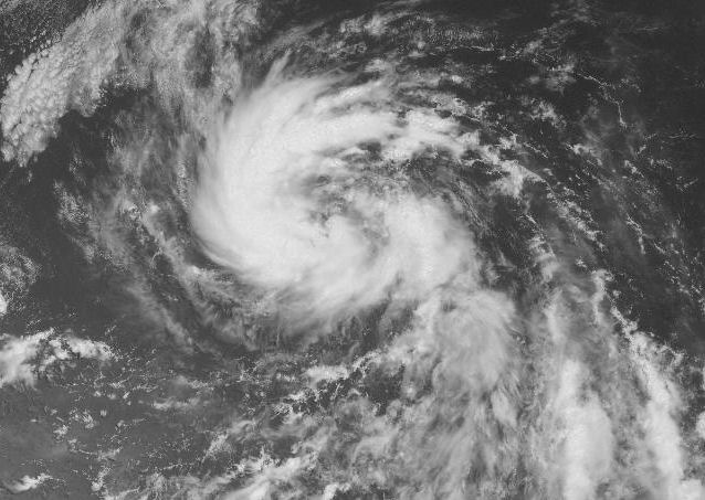 Tropical Depression Ten-E forming in the Pacific on August 12th. Photographed in visible light by GOES East Pacific Floater 3